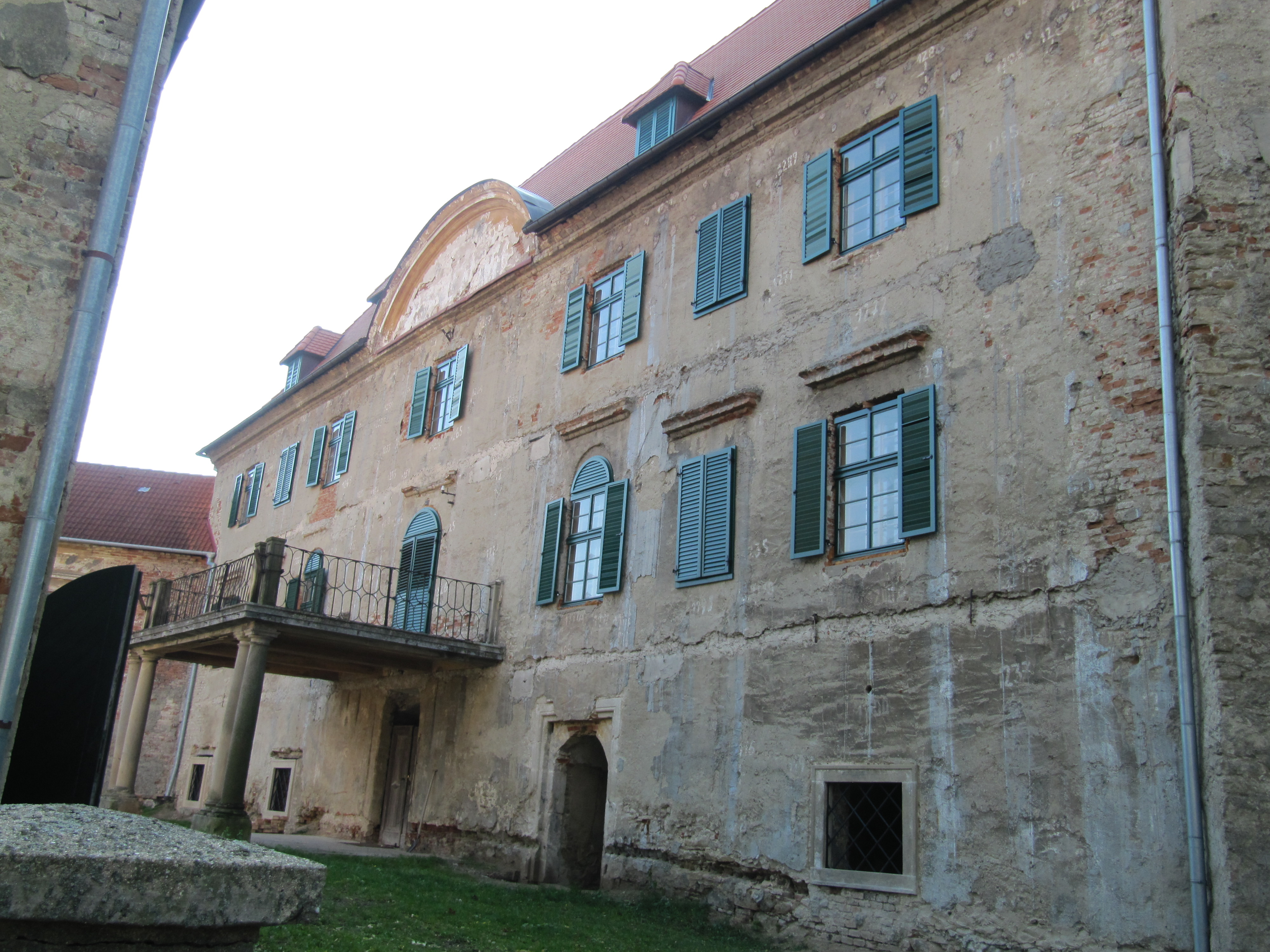 Litenčice in Kroměříž District, Czech Republic. Front of the castle.